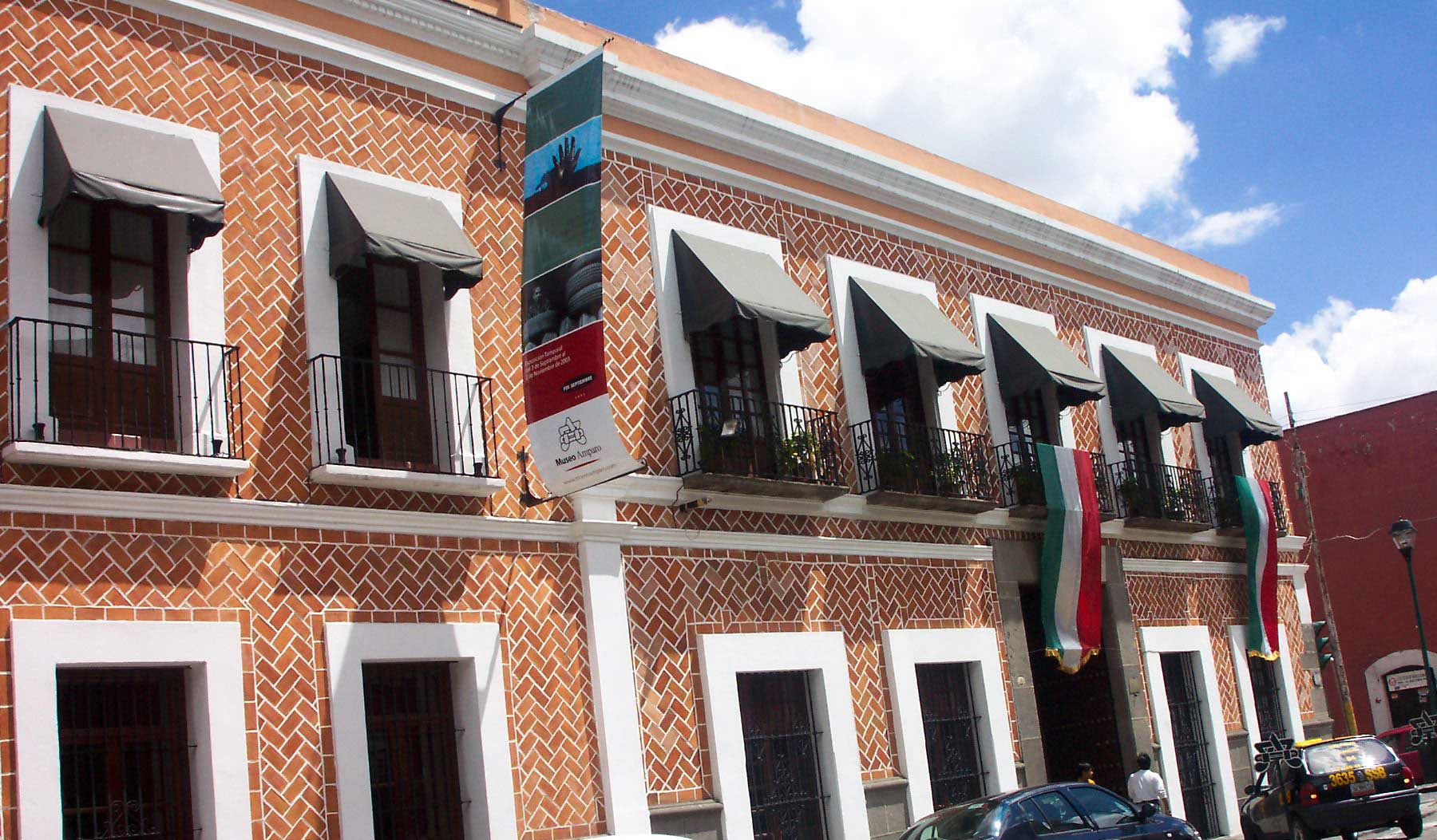 Museo Interactivo Amparo. Foto Propia Salvador Barrera Rodriguez. Julio 2004. (Author's own work)